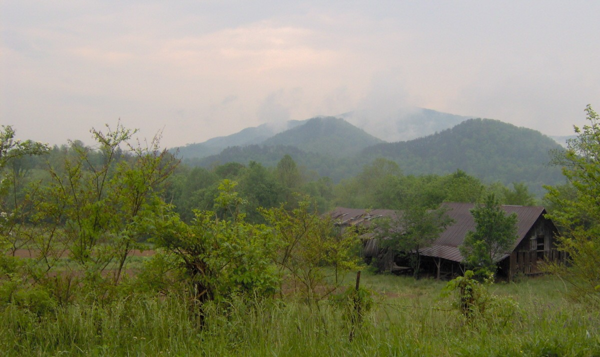 Stone Mountain, part of the Foothills of the Eastern Smokies, rises prominently above Del Rio, Tennessee.